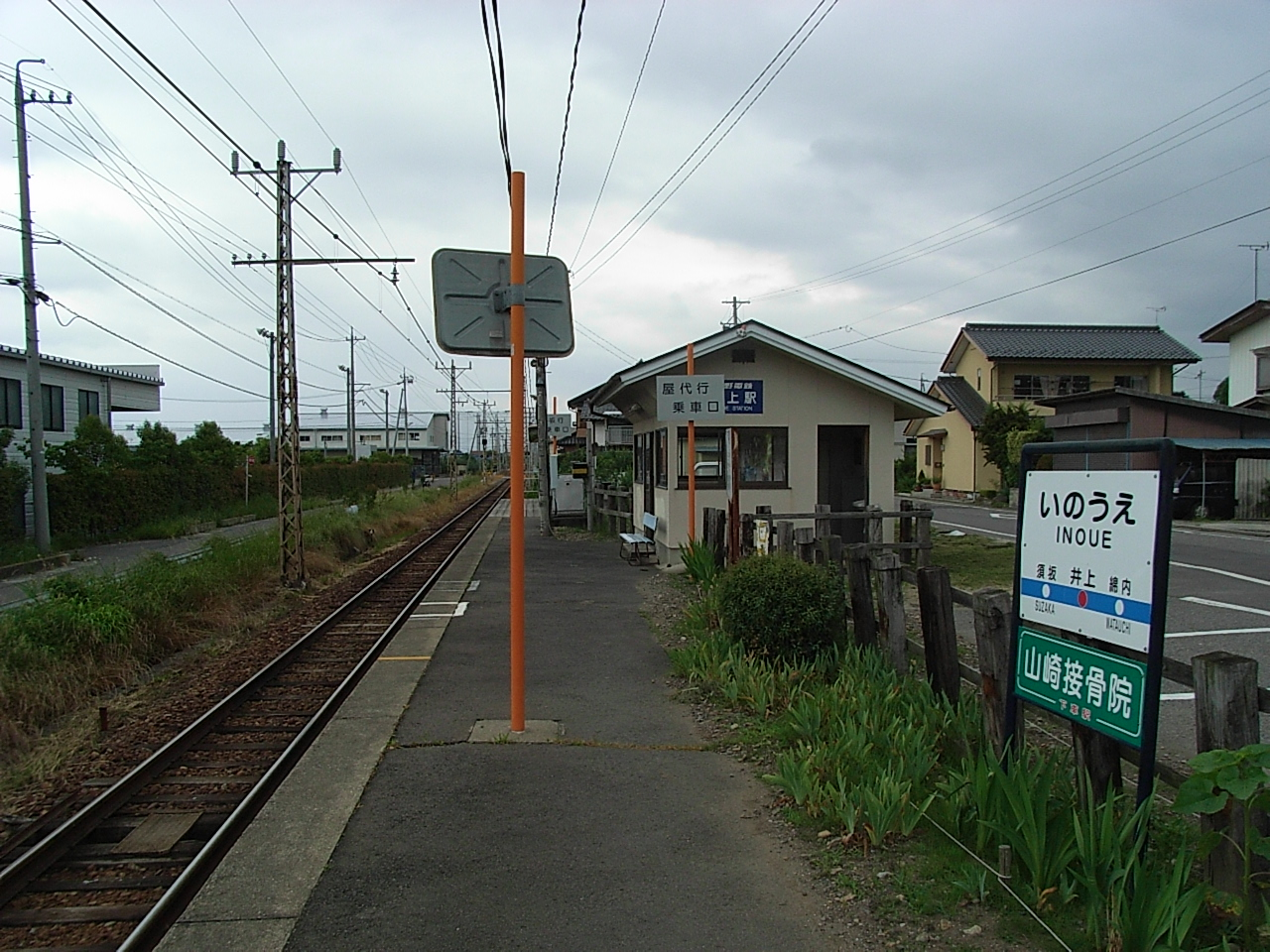 Inoue Station on Nagano Electric Railway Yashiro Line. (1740-4,Inoue,Suzaka-shi,Nagano-ken,JAPAN)